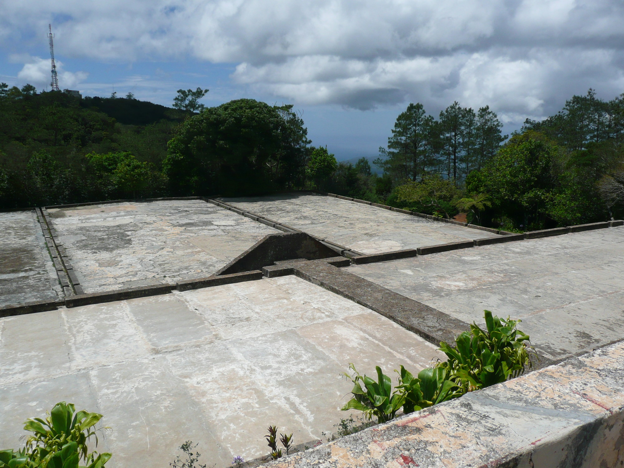 Cuba, historic coffee plantation cafetal Isabelica. Drying place called secadero or tendal